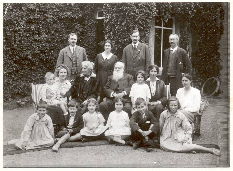 James Surtees Phillpotts and Marian Hadfield Phillpotts on their golden wedding anniversary together with their descendants